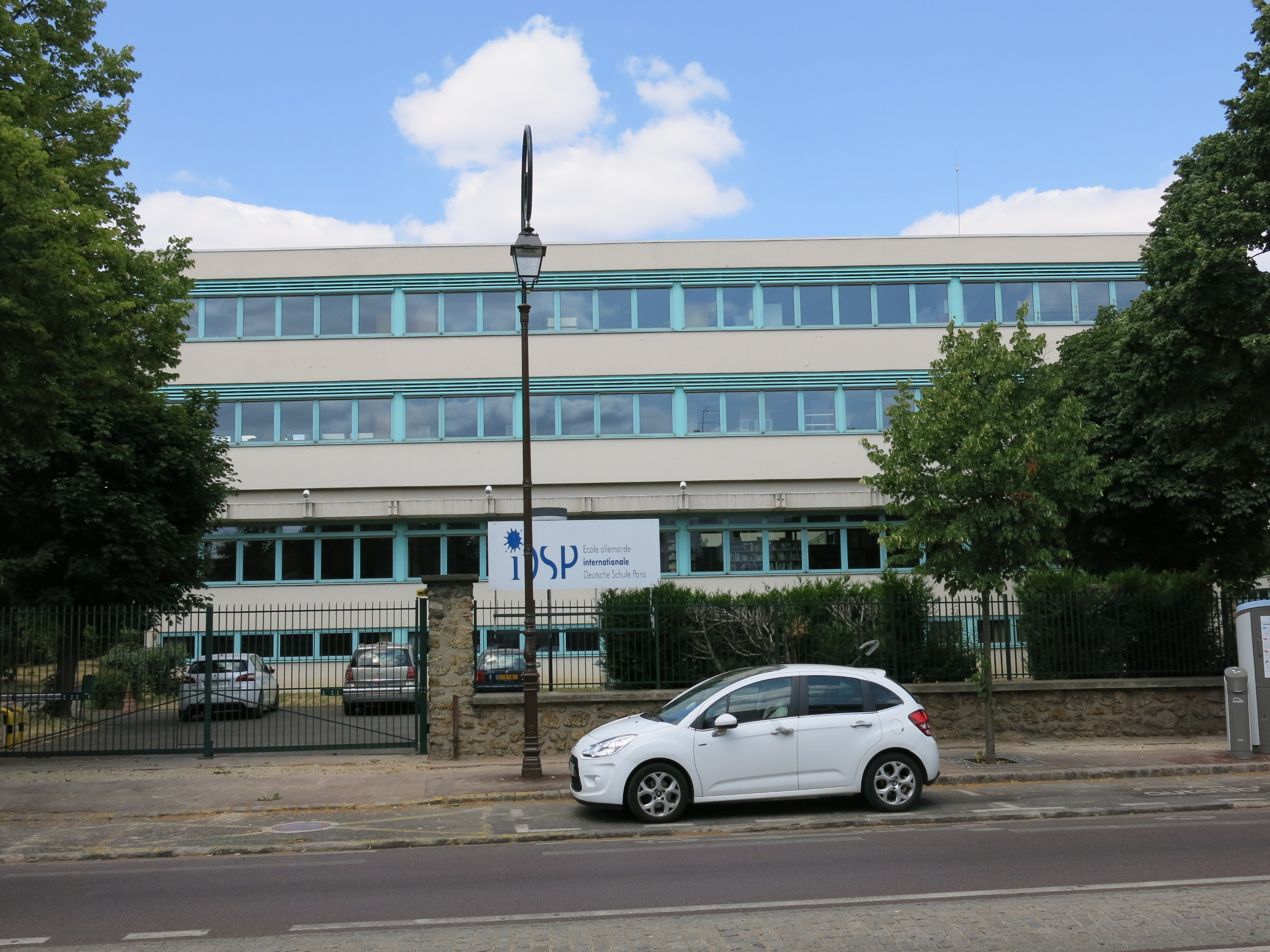 Building 18 rue Pasteur à Saint-Cloud (Hauts-de-Seine, France). Internationale Deutsche Schule Paris